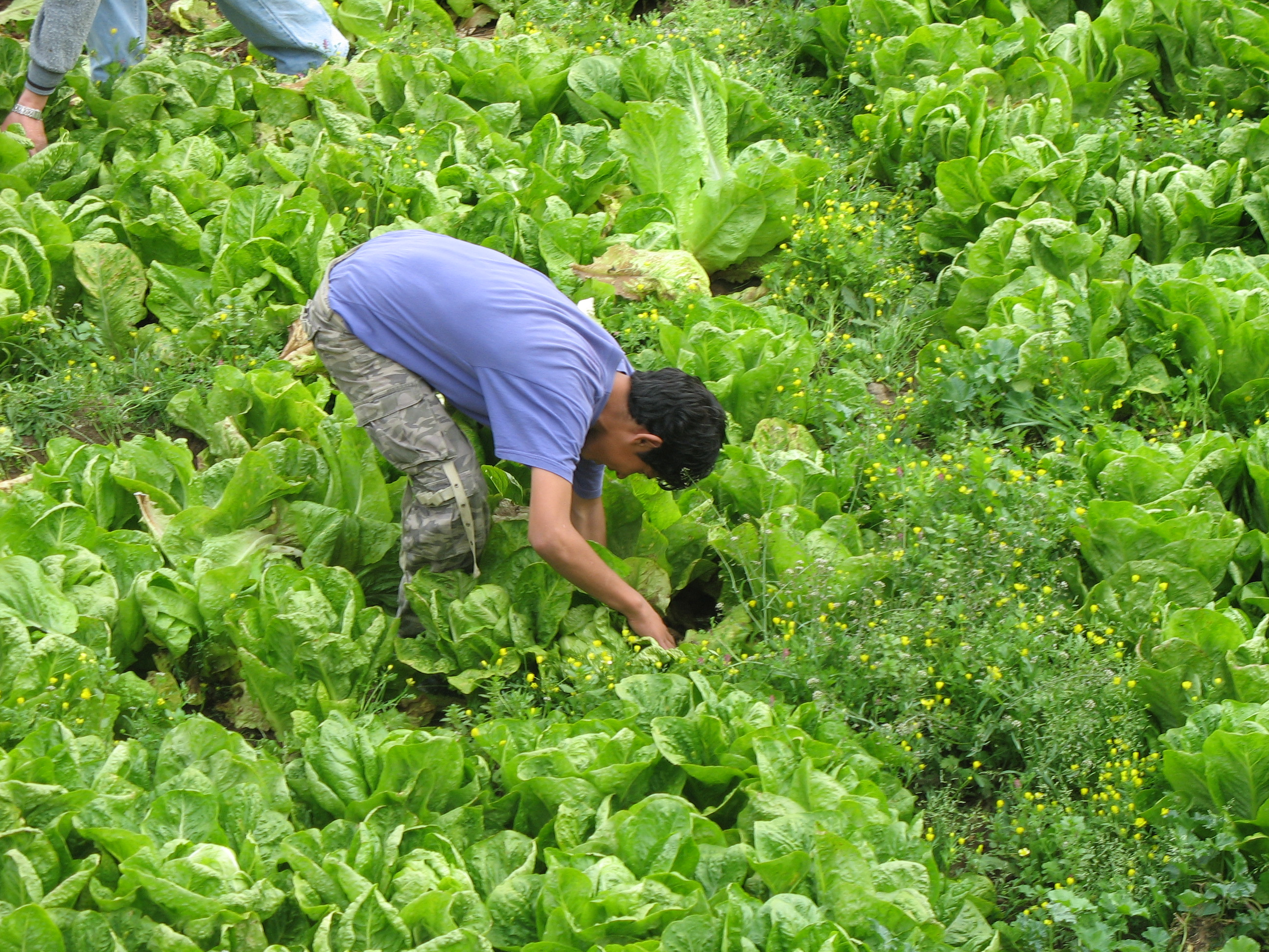 This young man picks lettuce from his family's field in the village of Artas,famous for its Romaine Lettuce. Movement restrictions make it difficult for people to come to buy from the source as they did decades ago, but many make the effort to attend the Annual Artas Lettuce Festival,where they will can munch the succulent leaves while watching Palestinian Folkore.